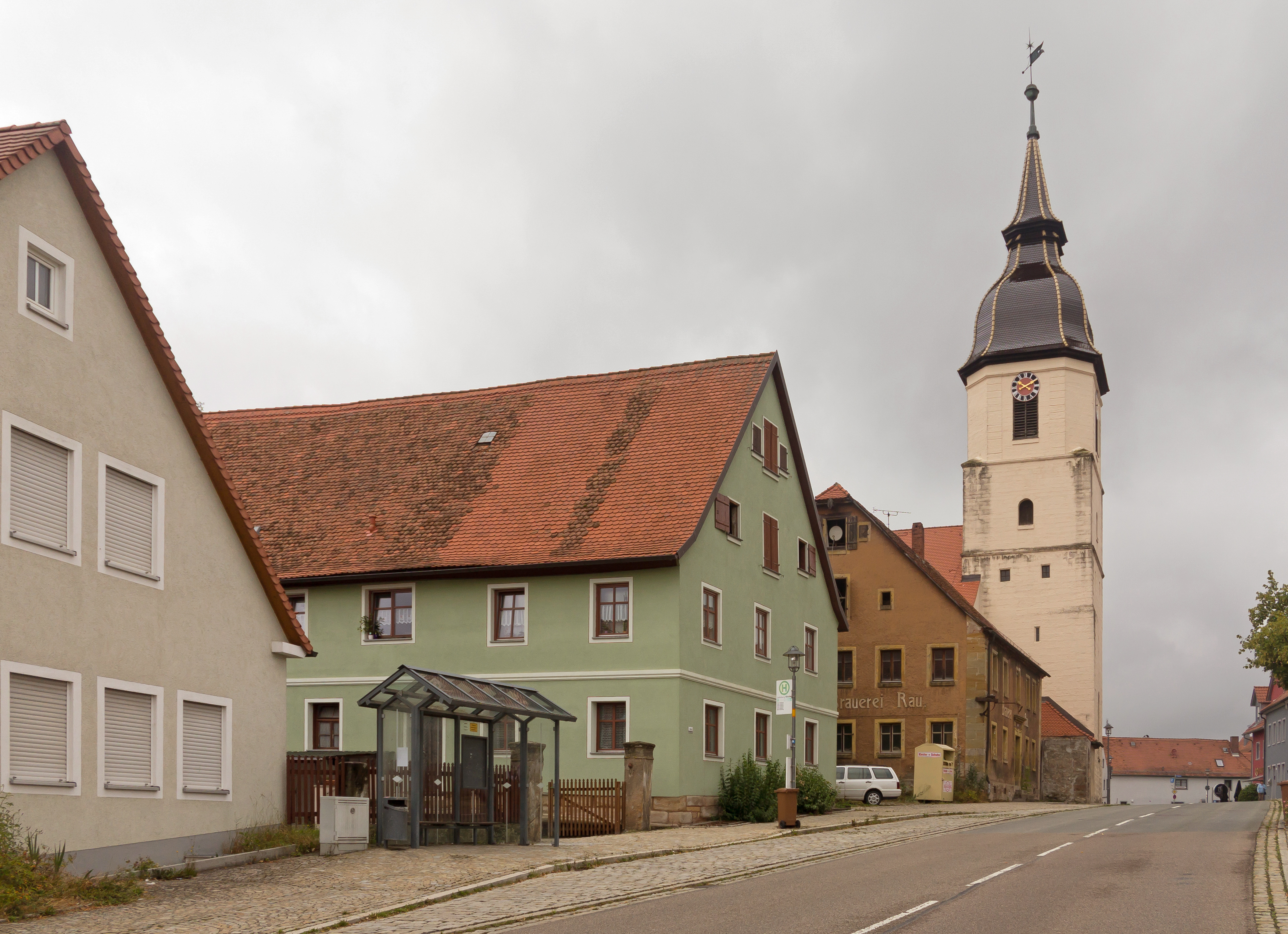 Lehrberg, church (die evangelisch-lutherische Pfarrkirche Sankt Margaretha) in straatzichtThis is a photograph of an architectural monument.